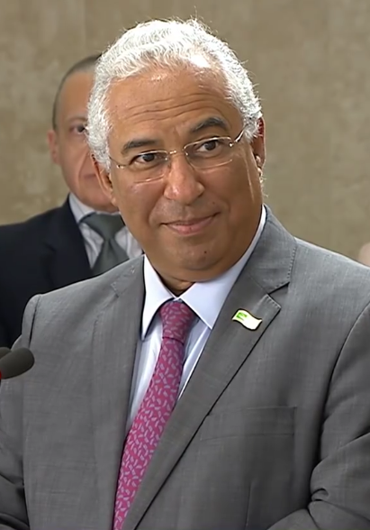 António Costa, Prime Minister of Portugal, during the 12th Brazil-Portugal Summit in Brasília, 2016.